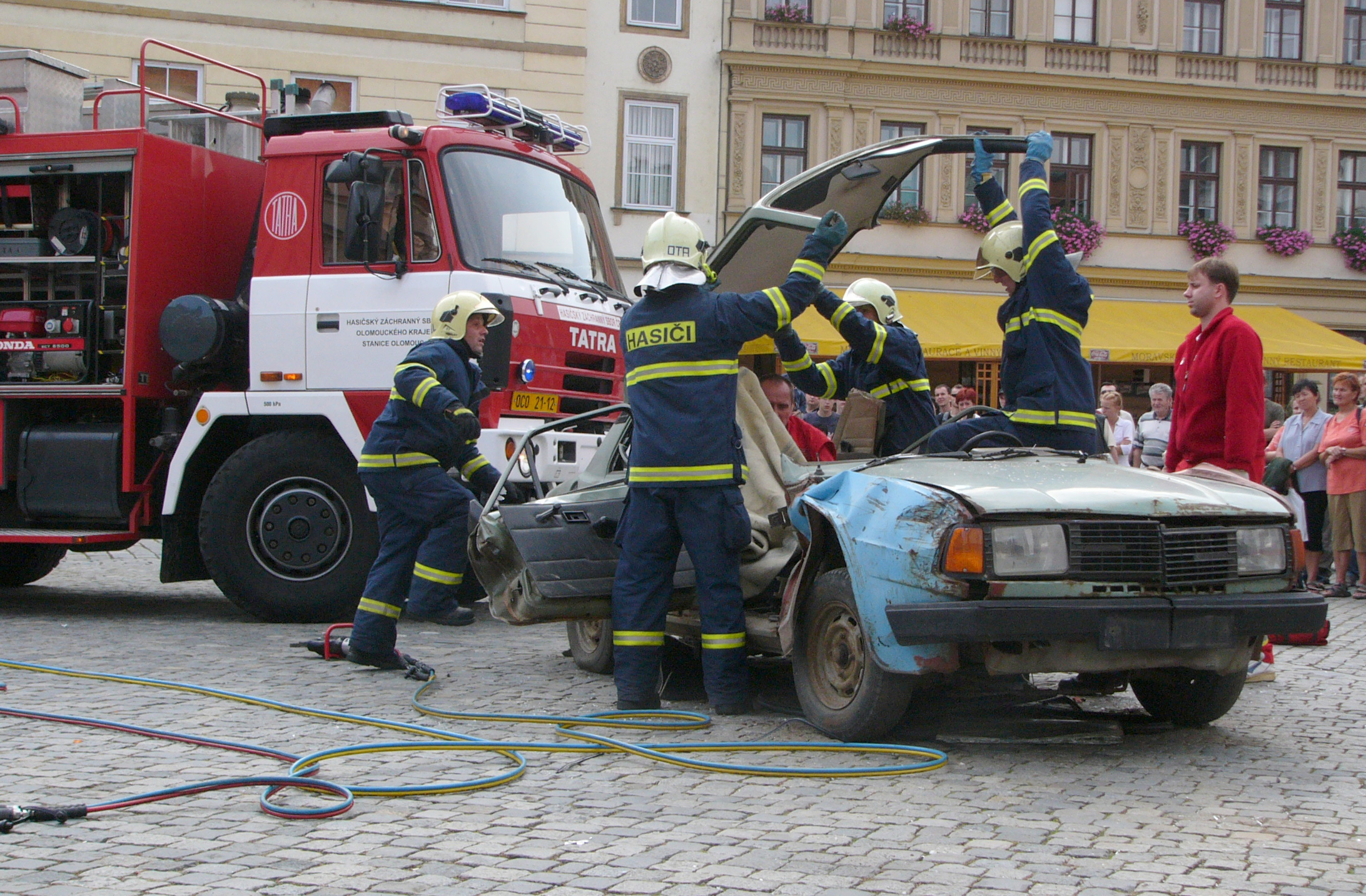 Firemen and Emergency medical services are getting injured person from the car - practice show for public in the Czech Republic.